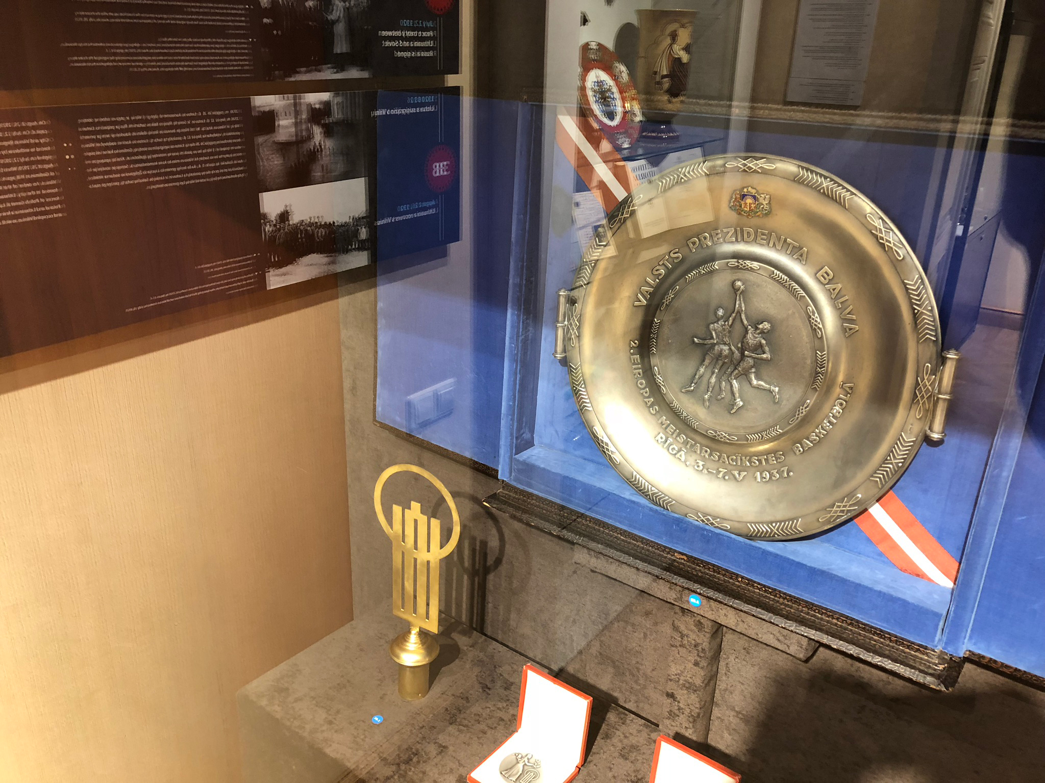 EuroBasket 1937 champions prize exhibited in the Presidential Palace in Kaunas. The plate was gifted by the Latvian president Kārlis Ulmanis to the Lithuania men's national basketball team after their triumph in the championship.